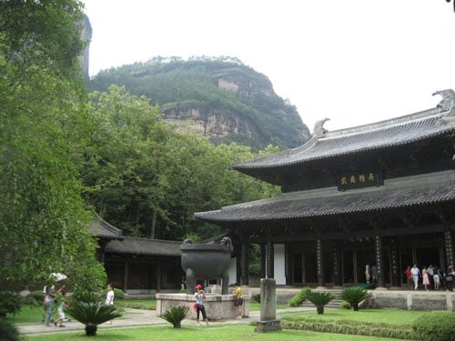 Wuyi Palace in Wuyi Mountains